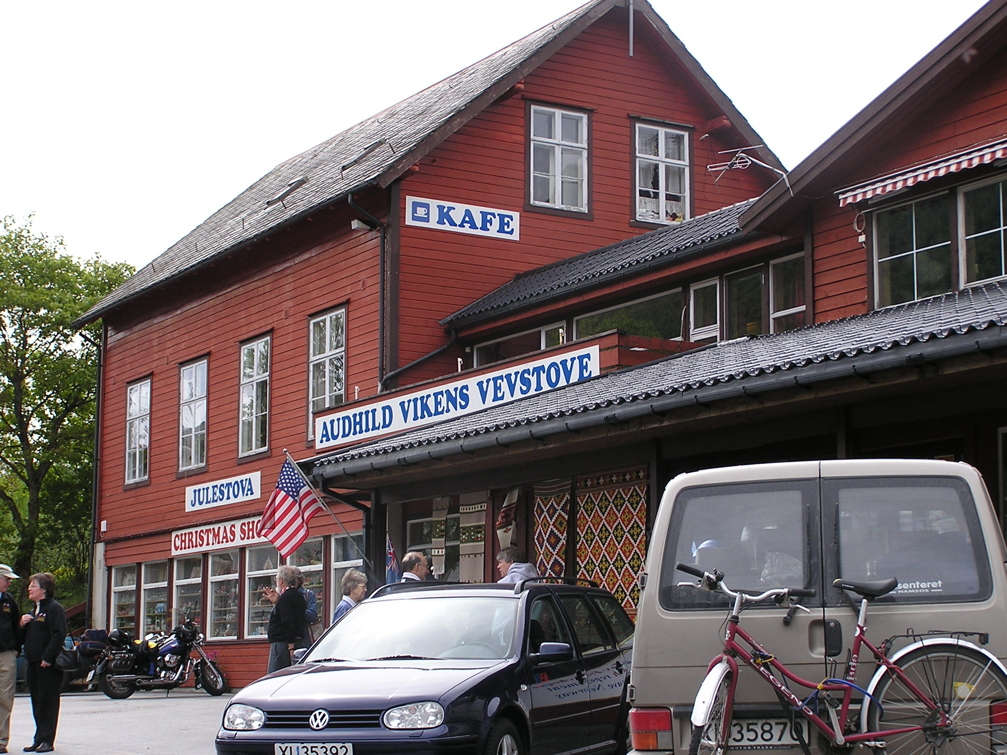 Alvhild Viken's giftshop, located in Skei in Western Norway.